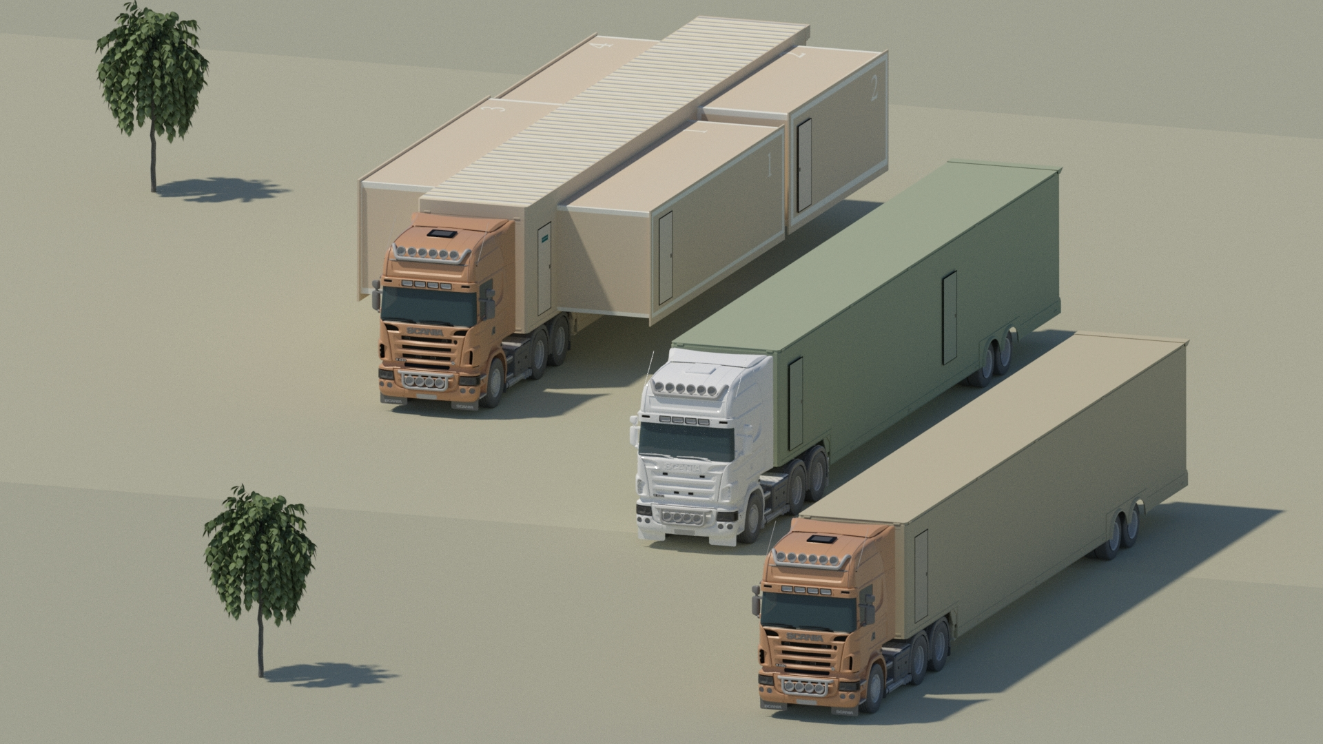 Several kinds of trailer; exp expandable trailer.